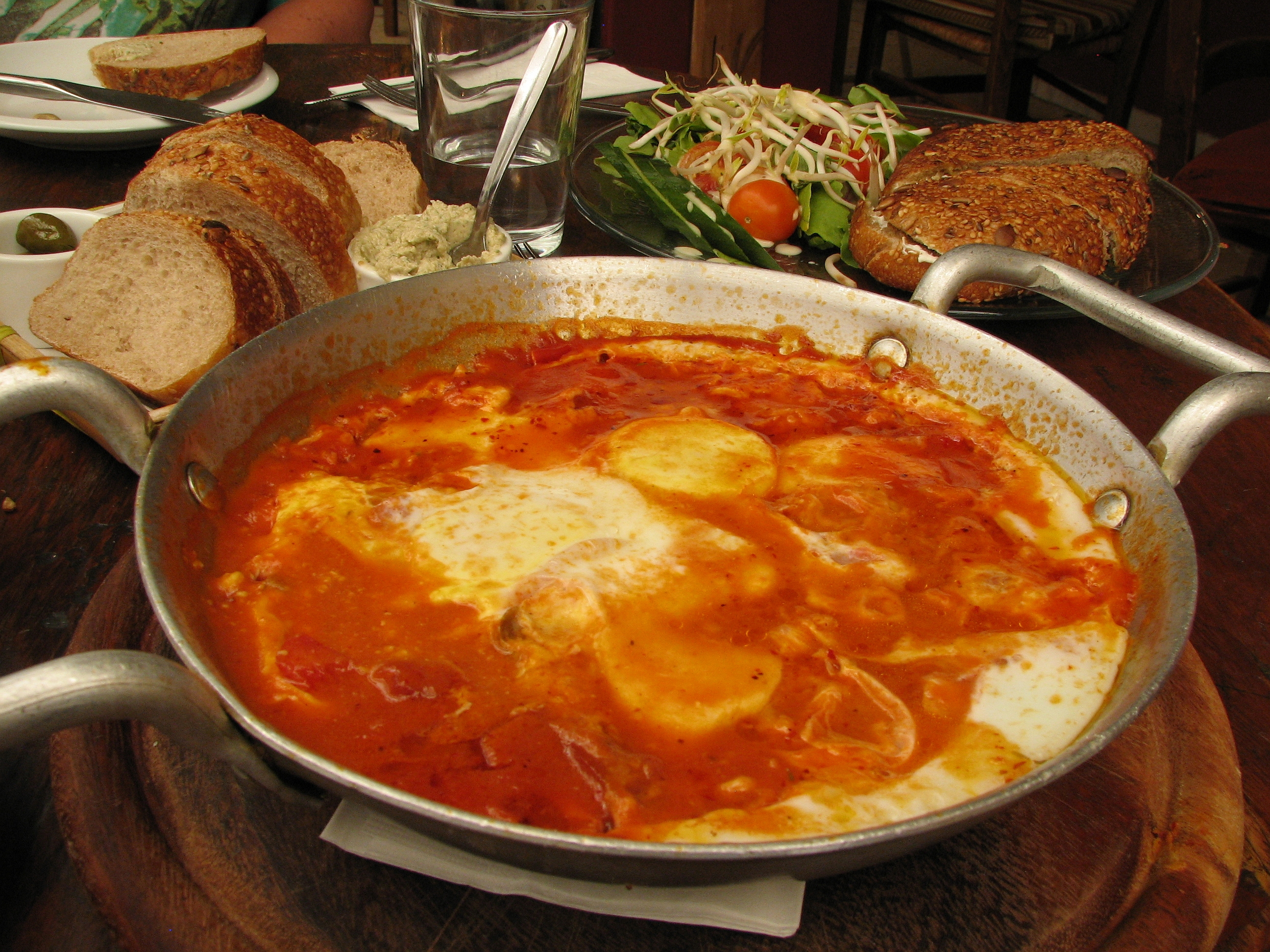 Pan of shakshuka, a poached egg & tomato sauce dish popular in Israel